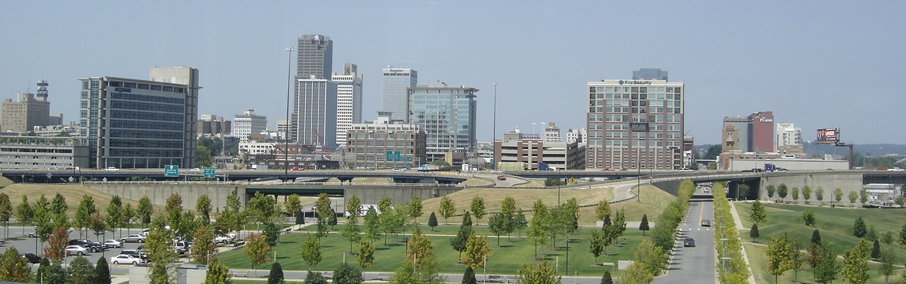 View of Downtown Little Rock